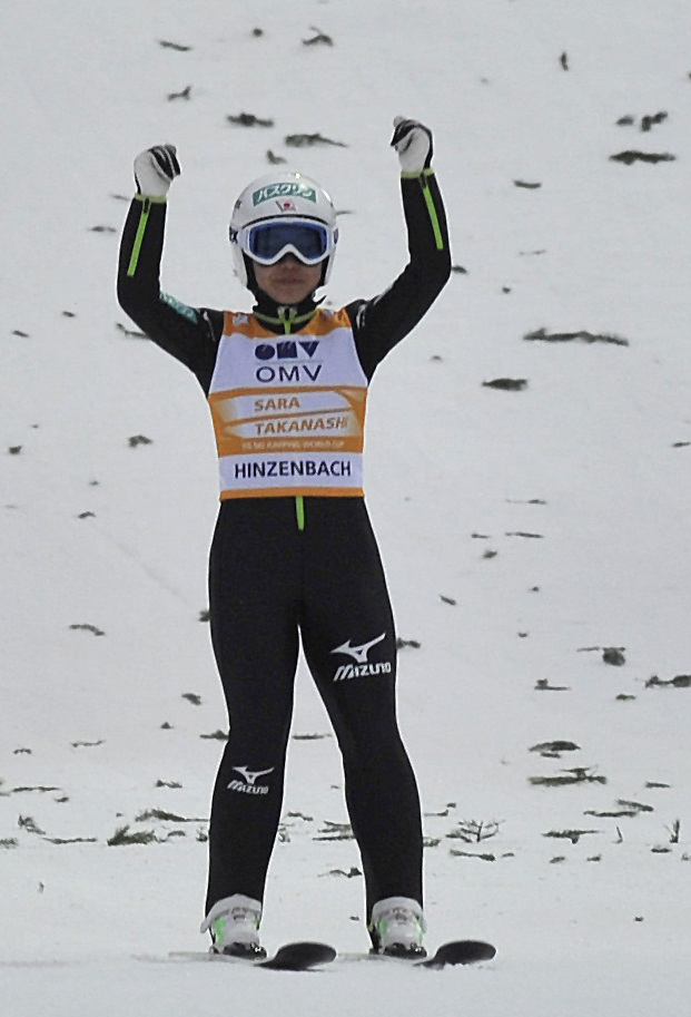 FIS Ski Jumping World Cup Ladies 14th World Cup Competition Normal Hill Individual Hinzenbach (AUT) Sun 2 Feb 2014: Sara Takanashi